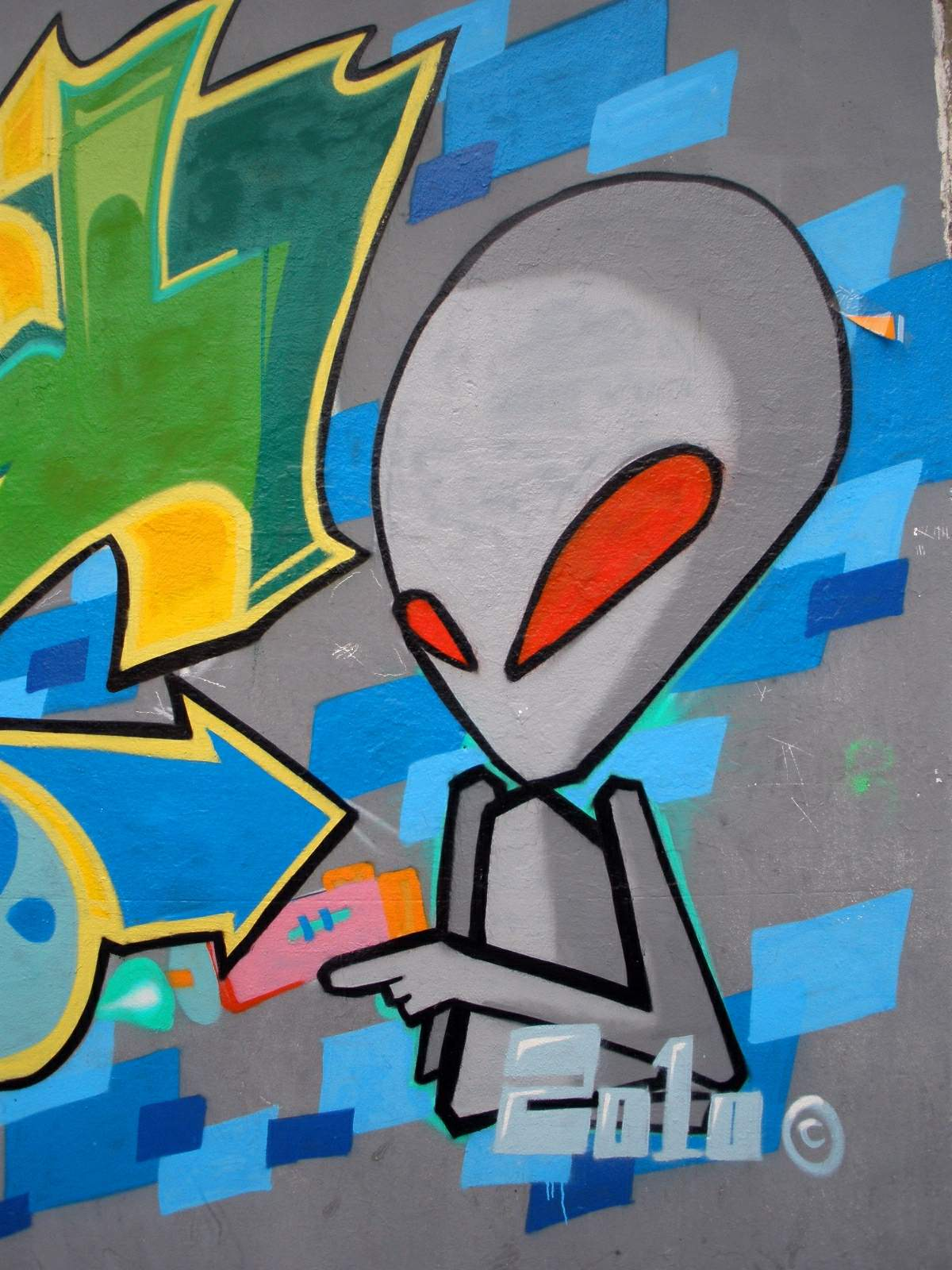 Graffiti en el barrio de Adurza de Vitoria-Gasteiz